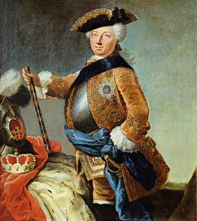 Portrat of Charles William Frederick, Margrave of Brandenburg-Ansbach (1712-1757)